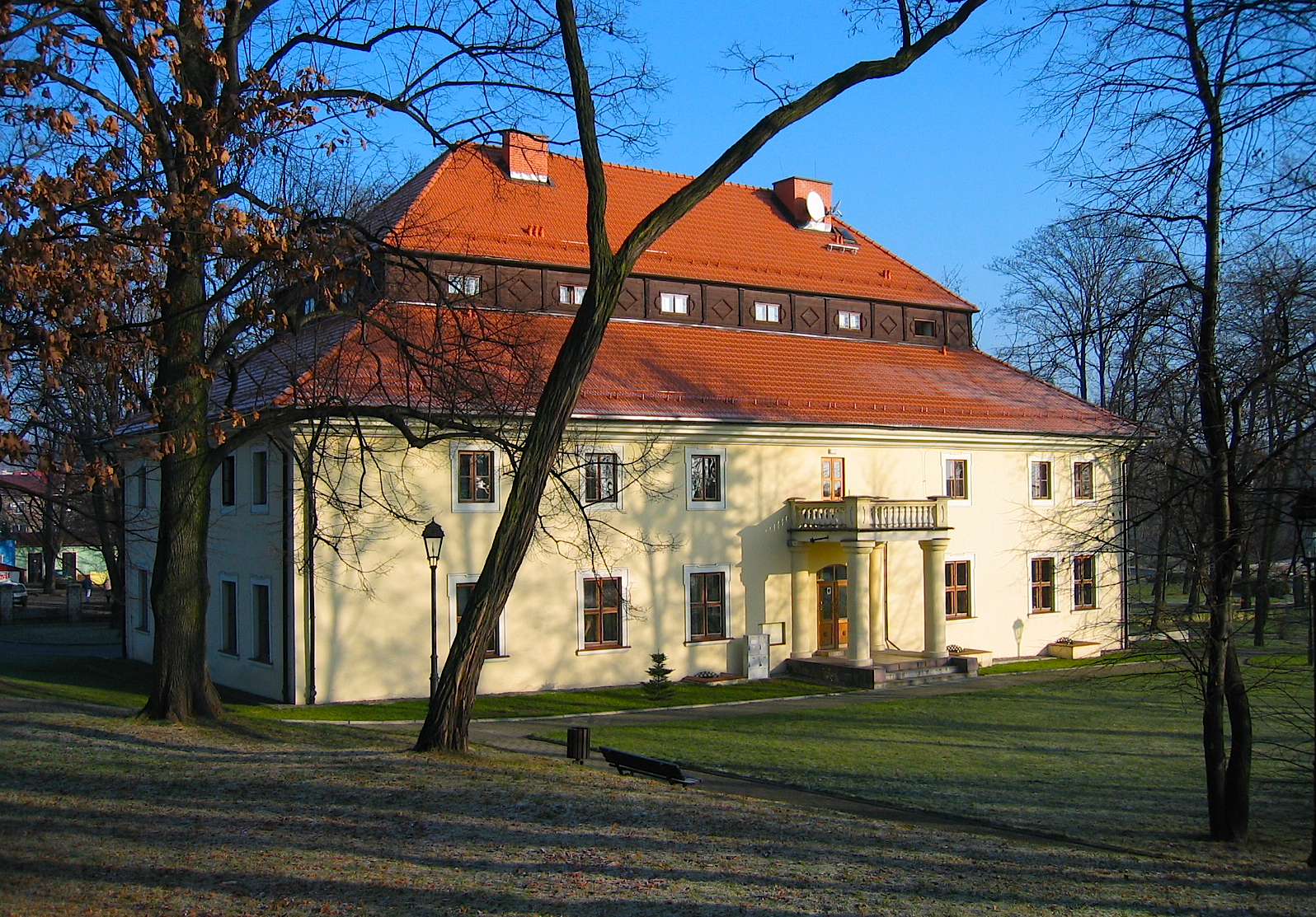 The Zieleniewski Manor in Trzebinia (Poland)